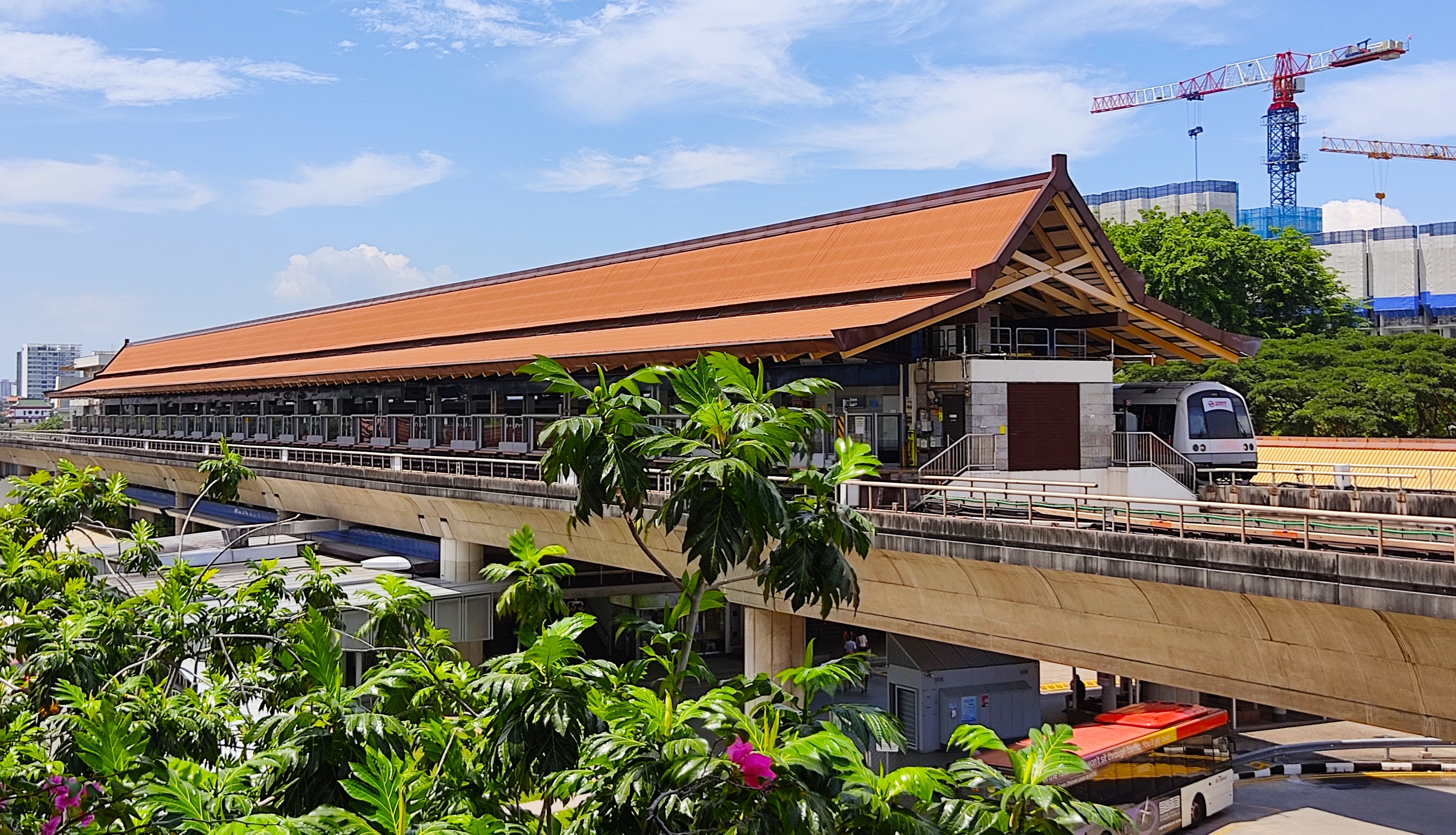 EW7 Eunos exterior